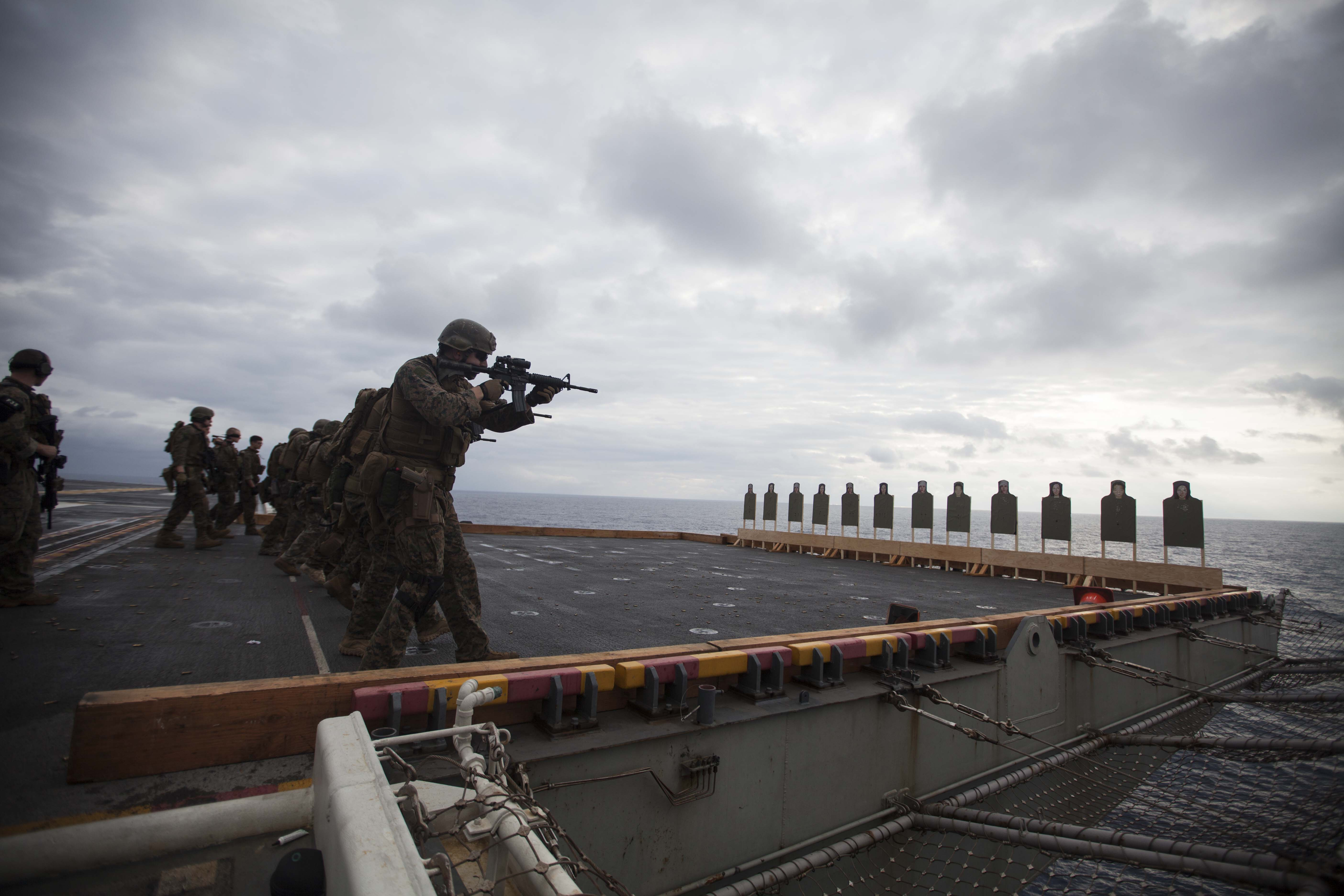 Marines and sailors with the Maritime Raid Force, 31st Marine Expeditionary Unit, approach and engage paper targets during a live fire exercise on the flight deck of the USS Bonhomme Richard (LHD 6) here, March 2. The Marines shot the targets from multiple distances while maintaining awareness of their surroundings. The 31st MEU is currently conducting amphibious integration training alongside Amphibious Squadron 11 while deployed for its regularly scheduled Spring Patrol.